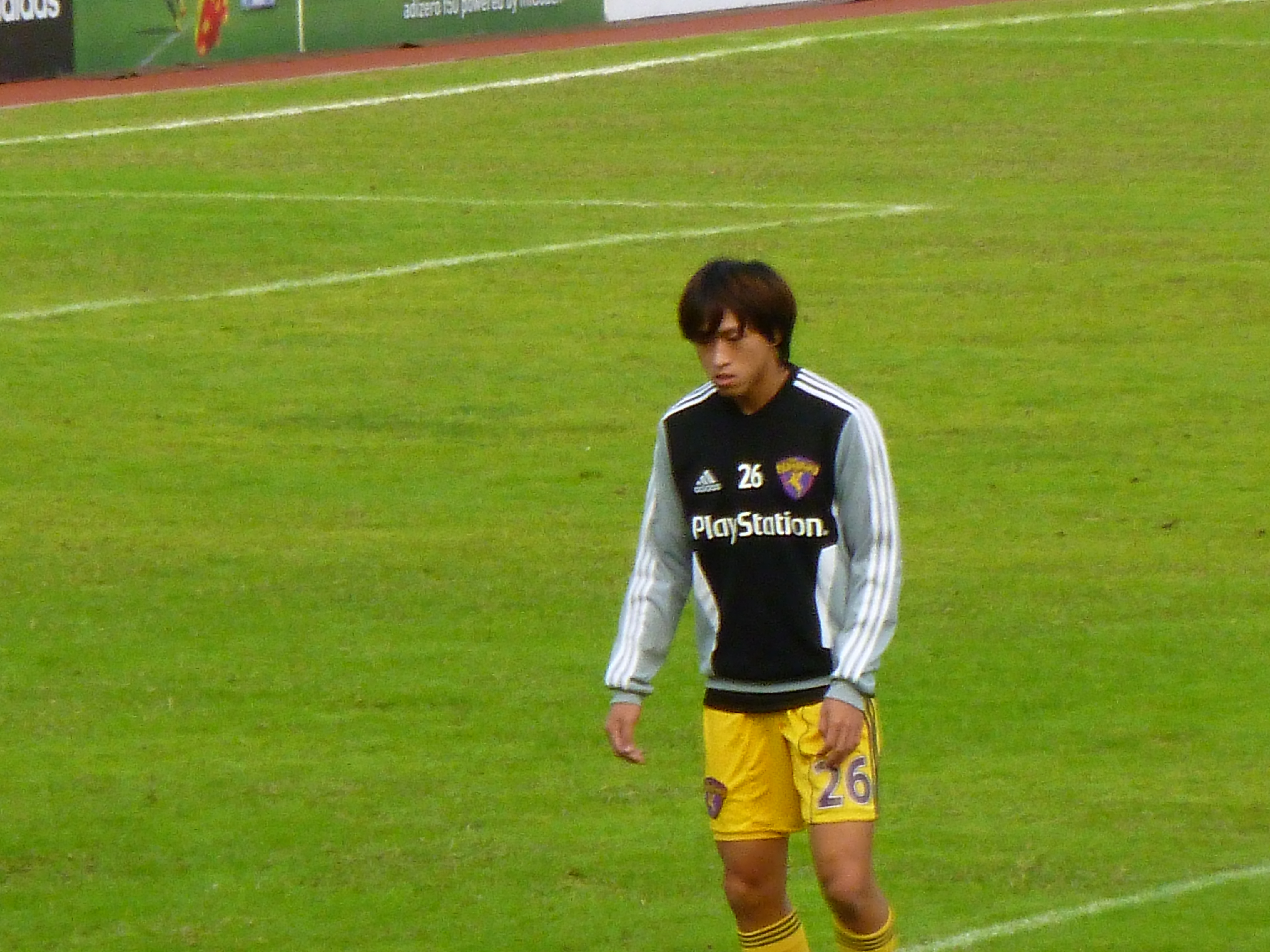 Lai Yiu Cheong (04 Feb 2012 Hong Kong First Division League, TSW Pegasus vs Sham Shui Po, Yuen Long Stadium)